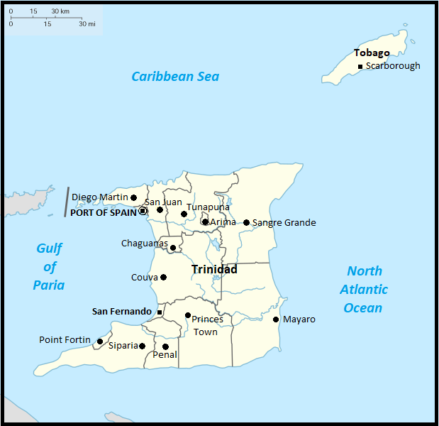 Map of Trinidad and Tobago